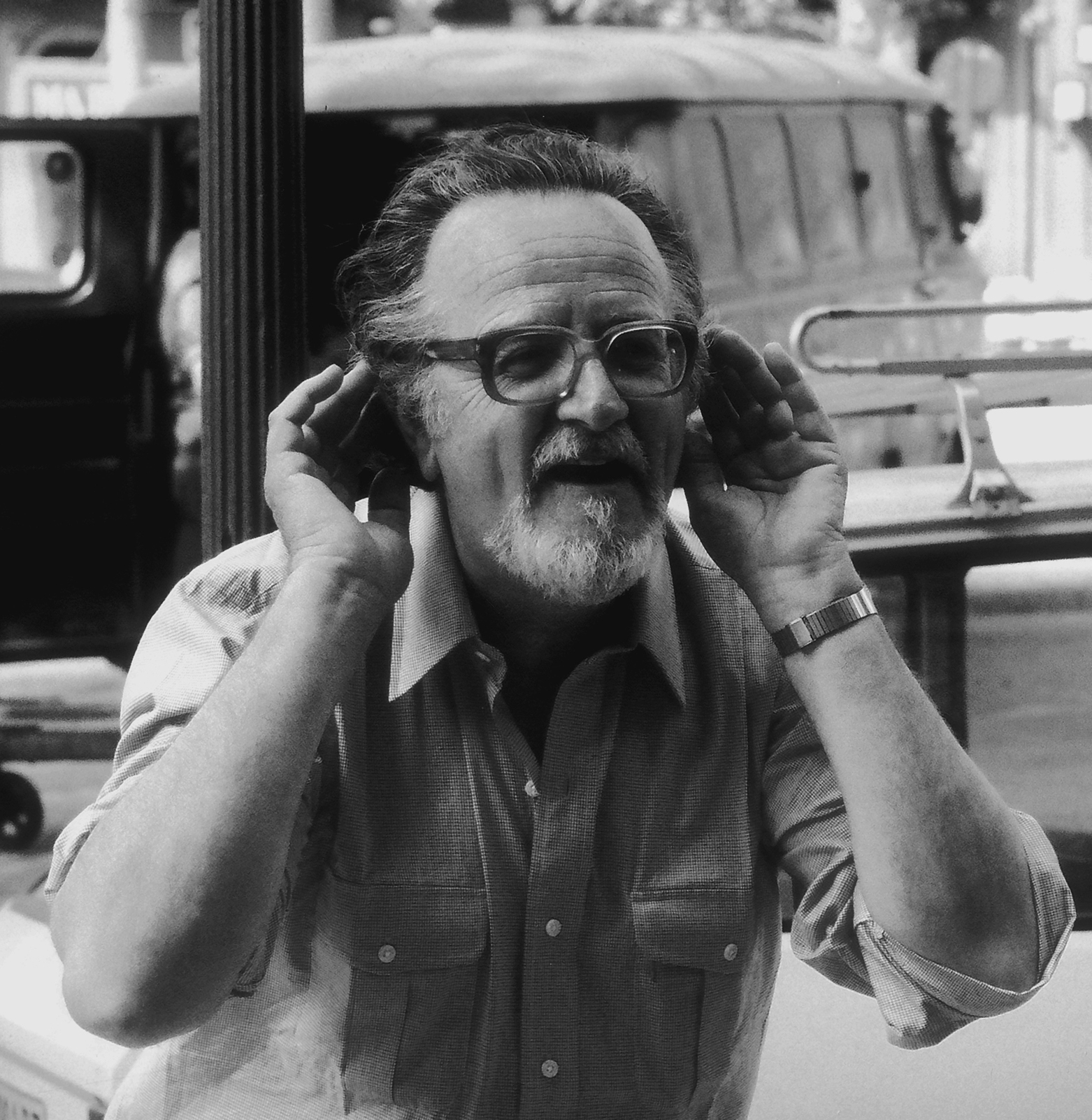 José Donoso Yáñez (Santiago, 5 de octubre de 19241 - ibídem, 7 de diciembre de 1996) fue un escritor, profesor y periodista chileno que formó parte del llamado boom latinoamericano de los años 1960 y 1970. Recibió el Premio Nacional de Literatura en 1990.